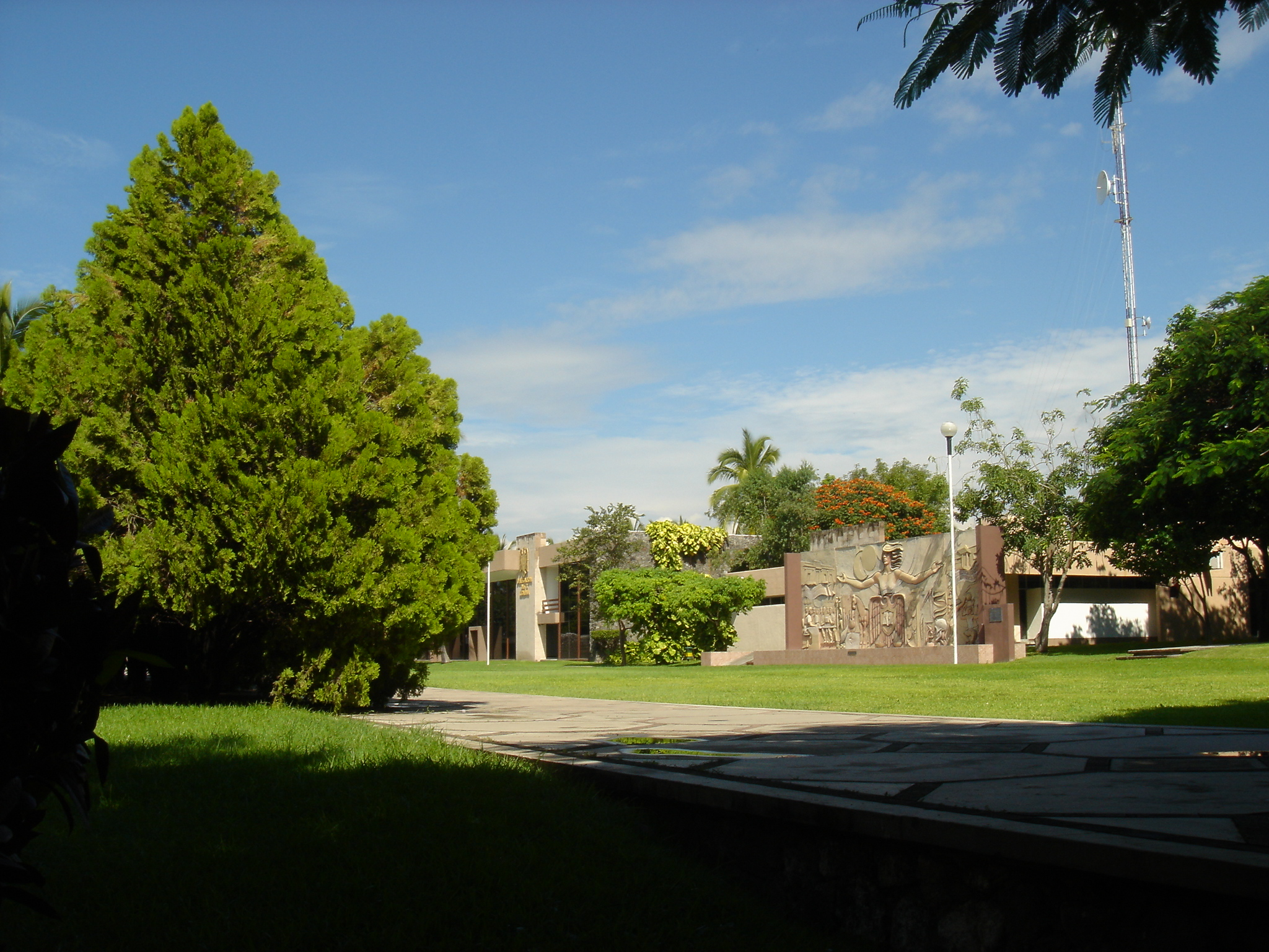 The University of Colima in Colima, Mexico.